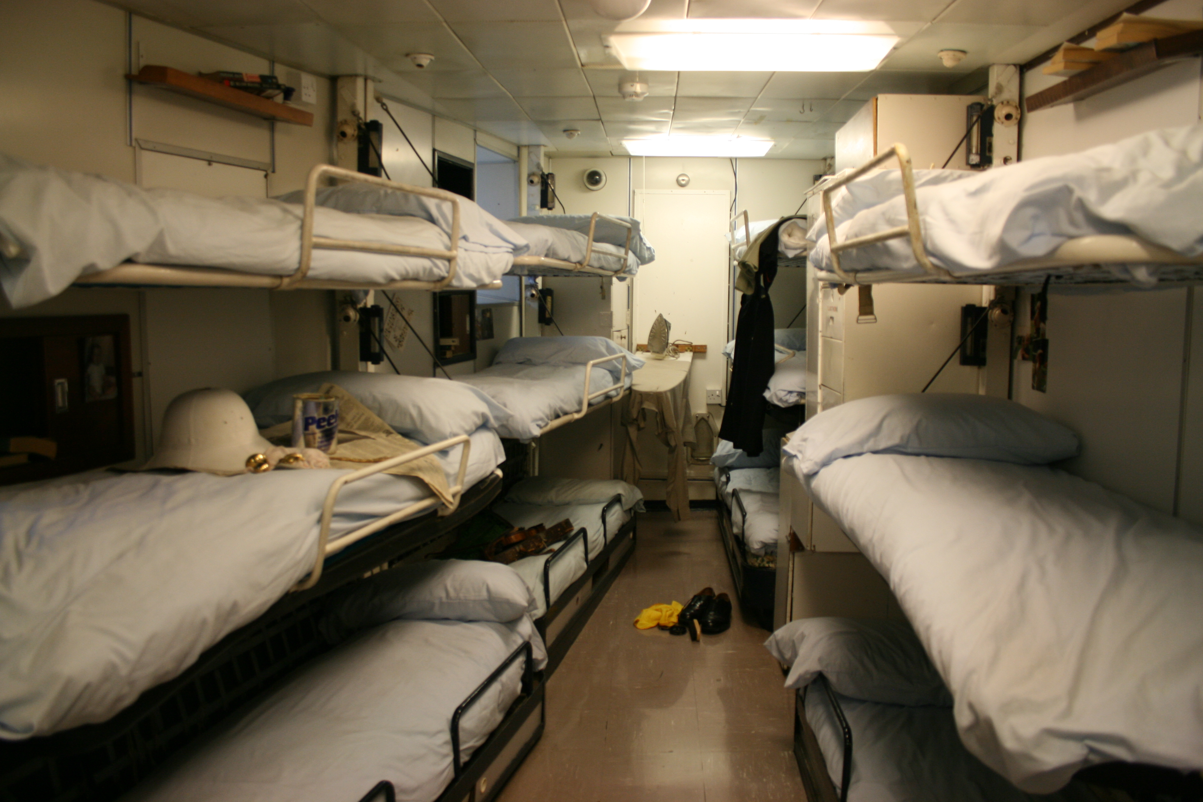 Britannia's soldiers cabin